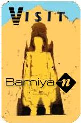 Visit Bamiyan. Bamiyan's official tourist information site. VisitBamiyan was created in August 2009 to market Bamiyan to the rest of the world.